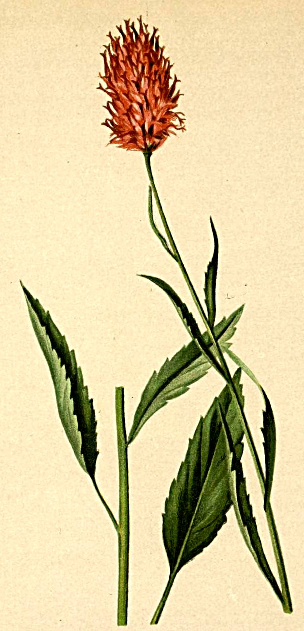 Phyteuma betonicifolium